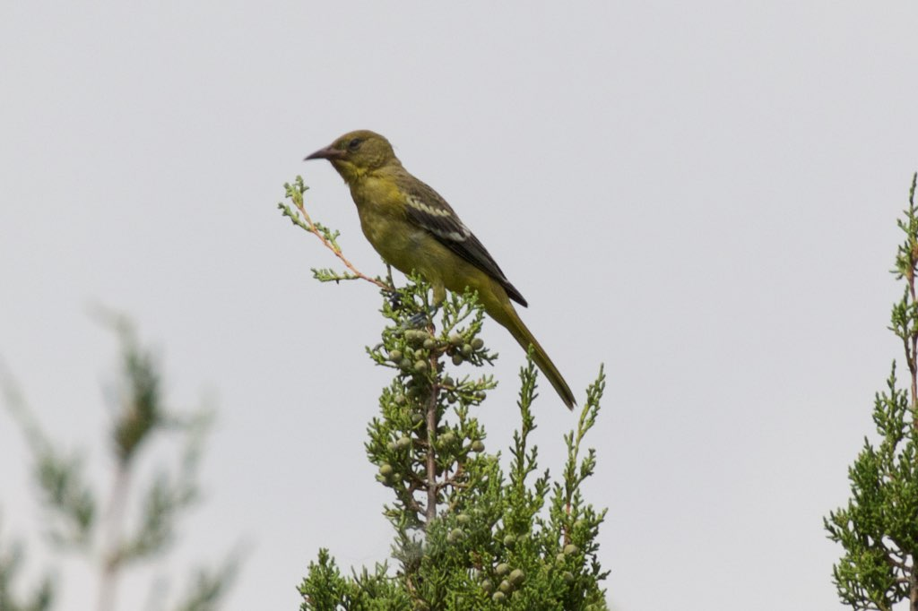 Scott's Oriole (female or immature) | Paradise - Cave Creek Loop | AZ | 2015-08-14at11-05-251